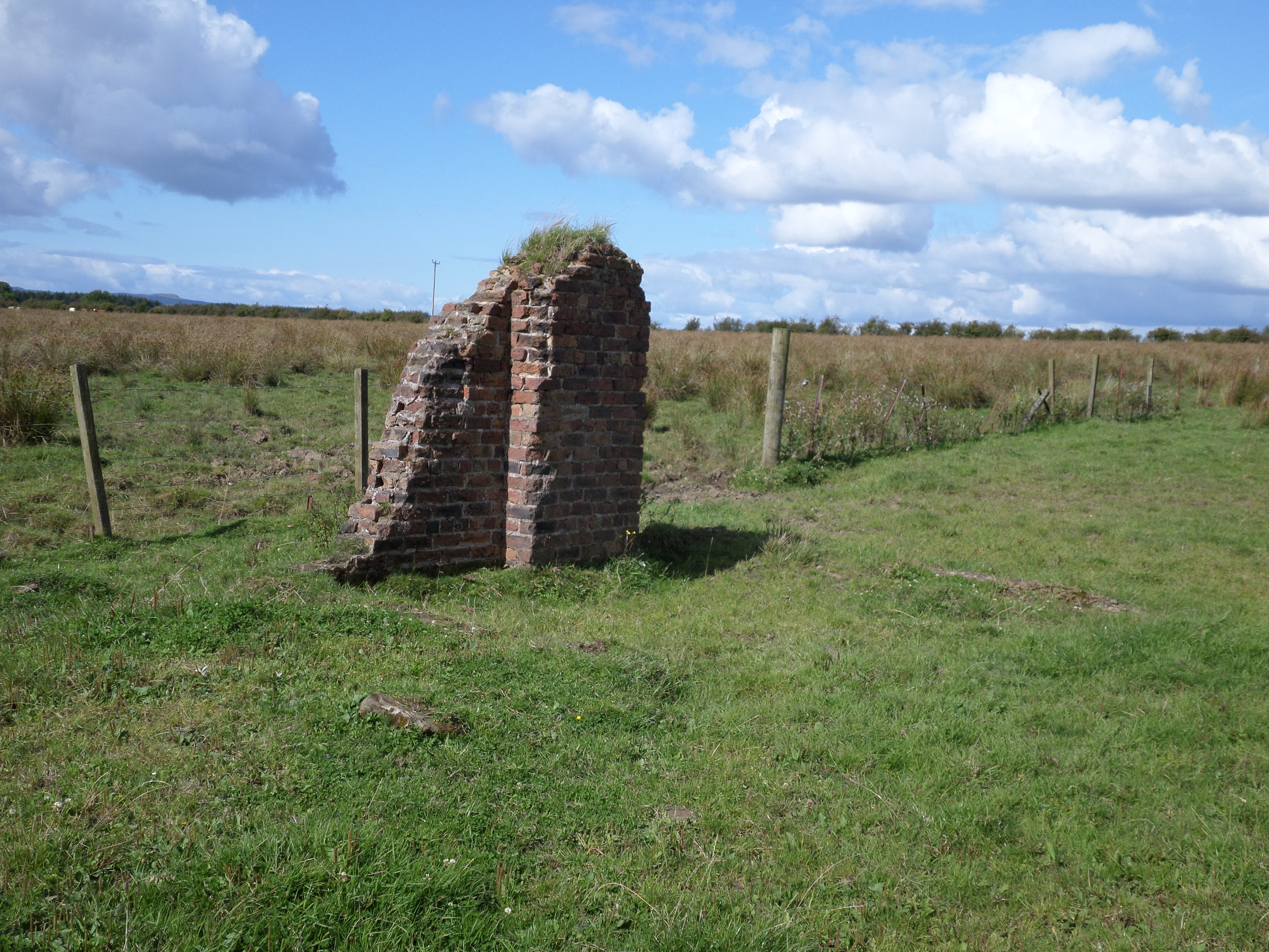 Lissens Goods station site, old signal box ruins, North Ayrshire, Scotland.